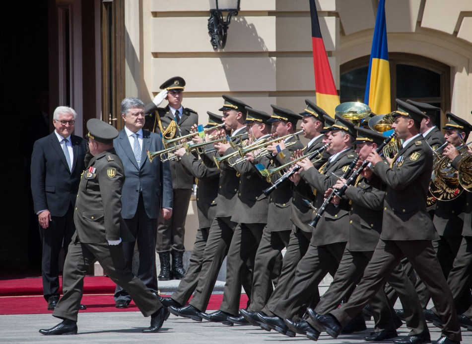 Зустріч Президента України з Федеральним Президентом ФРН